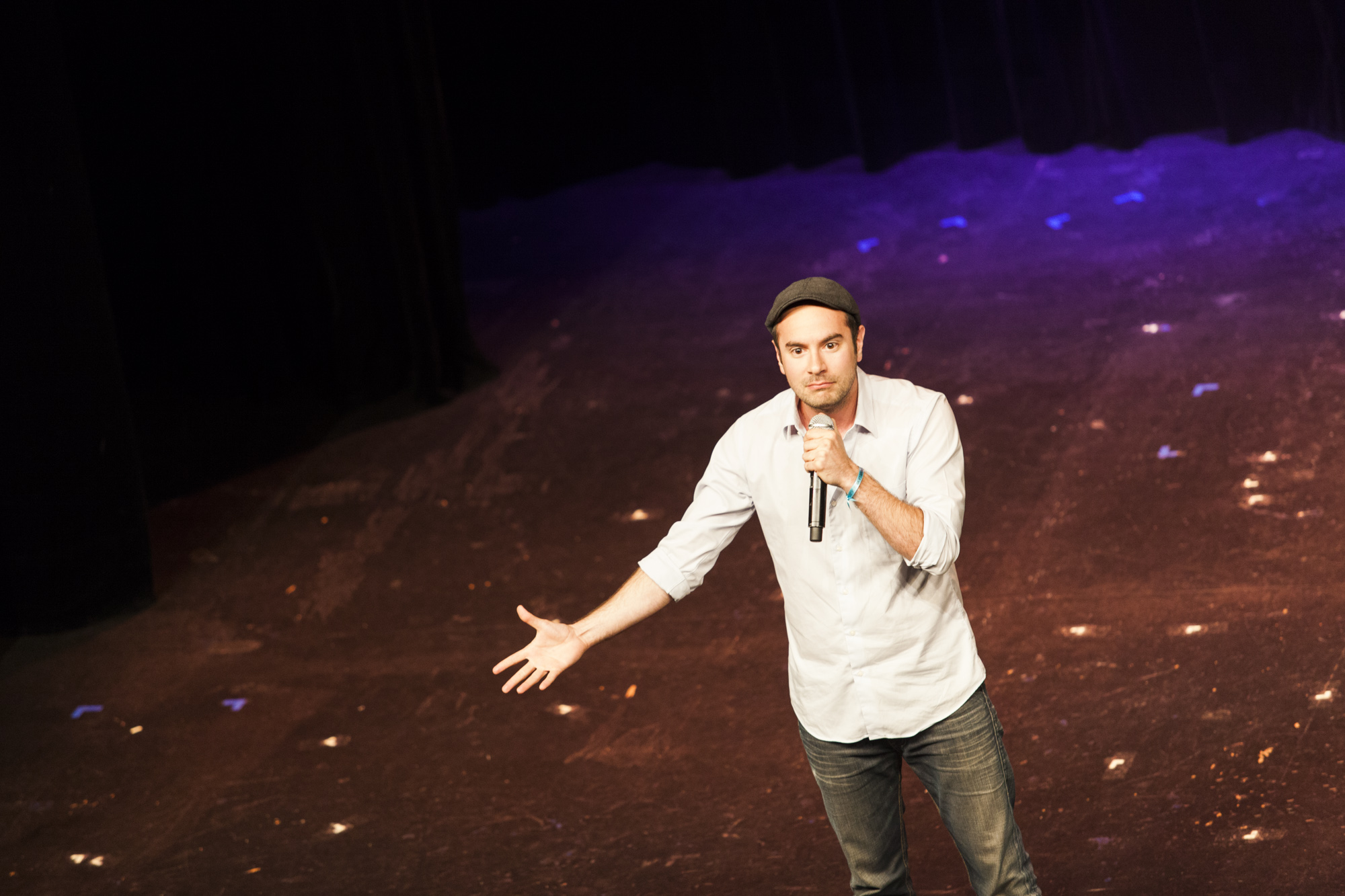 Festival Onze Bouge 2014 (Paris), Théâtre Le Temple